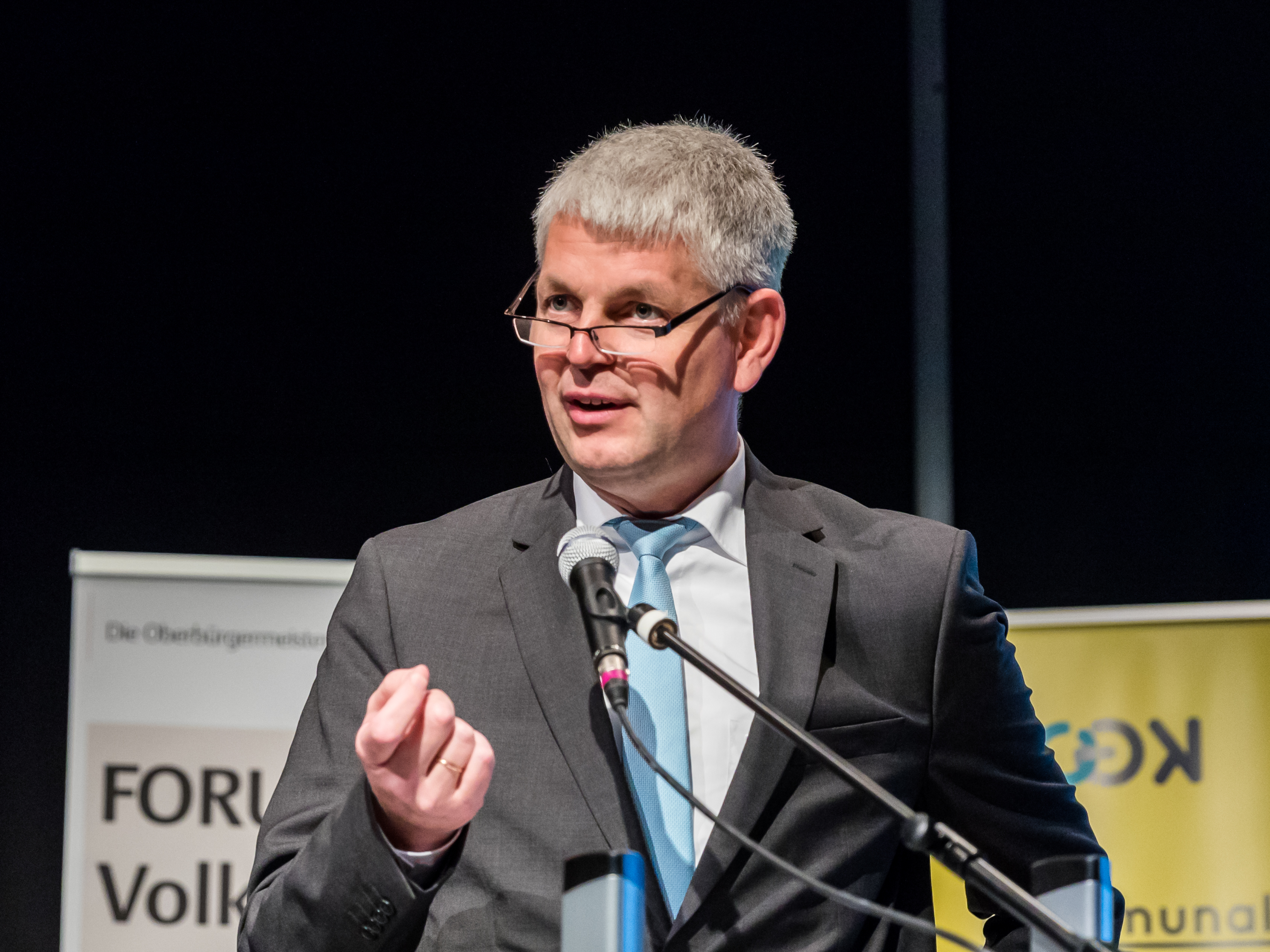 Kommunale Open Government Konferenz 2018. Veranstaltungsort: VHS-Forum im Kulturquartier Köln Foto: Christoph Dammermann, Staatssekretär im Ministerium für Wirtschaft, Innovation, Digitalisierung und Energie des Landes Nordrhein-Westfalen